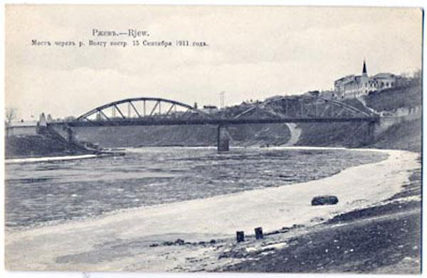 An old photo of a bridge in Rzhev built in 1911 (destroyed during the Second World War)